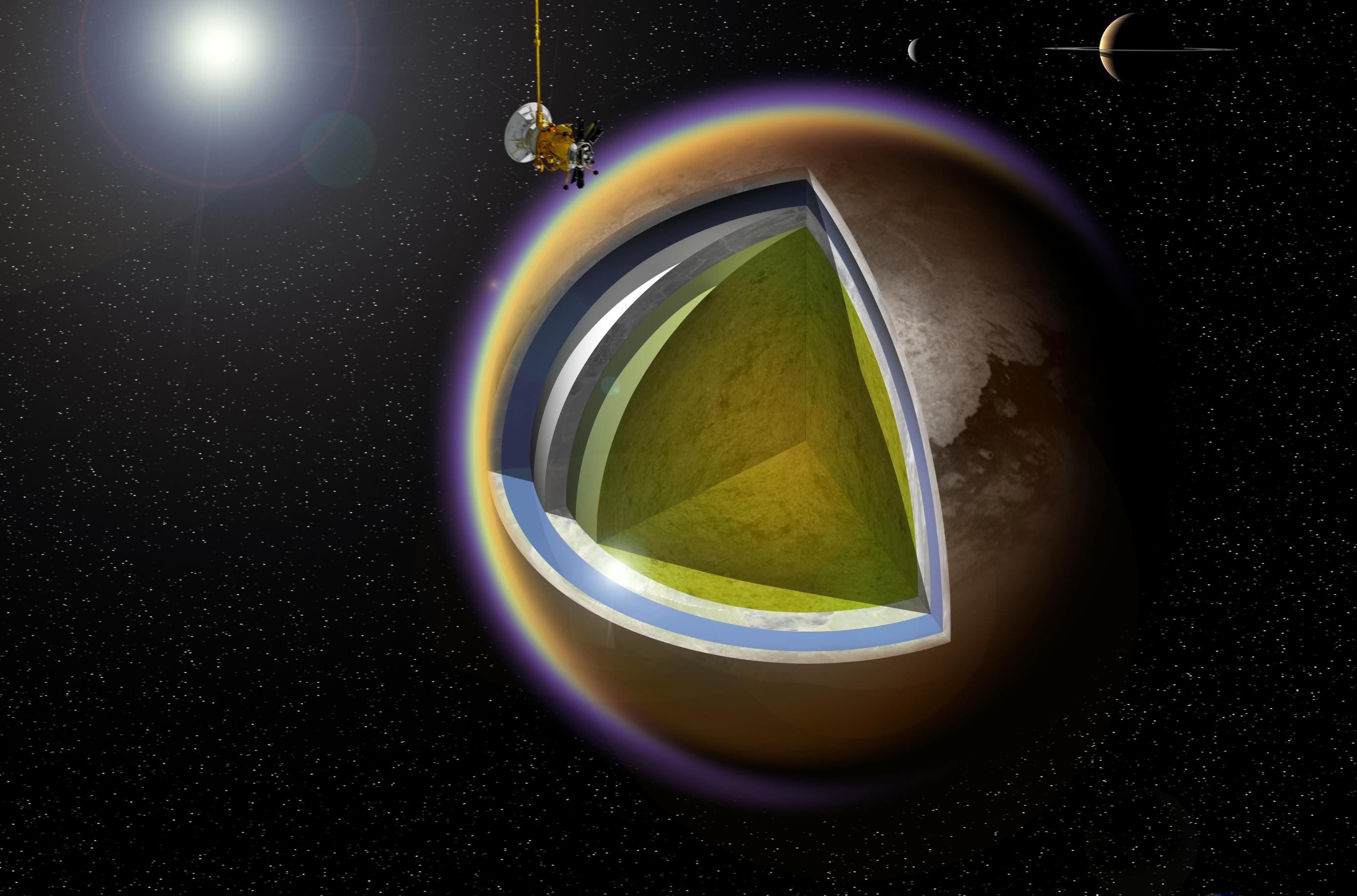 Inner layers of Titan, the largest moon of Saturn.